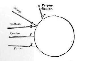 Marked cue ball from an illustration appearing on page 52 of Michael Phelan's 1859 book, The Game of Billiards (D. Appleton & Company, New York).